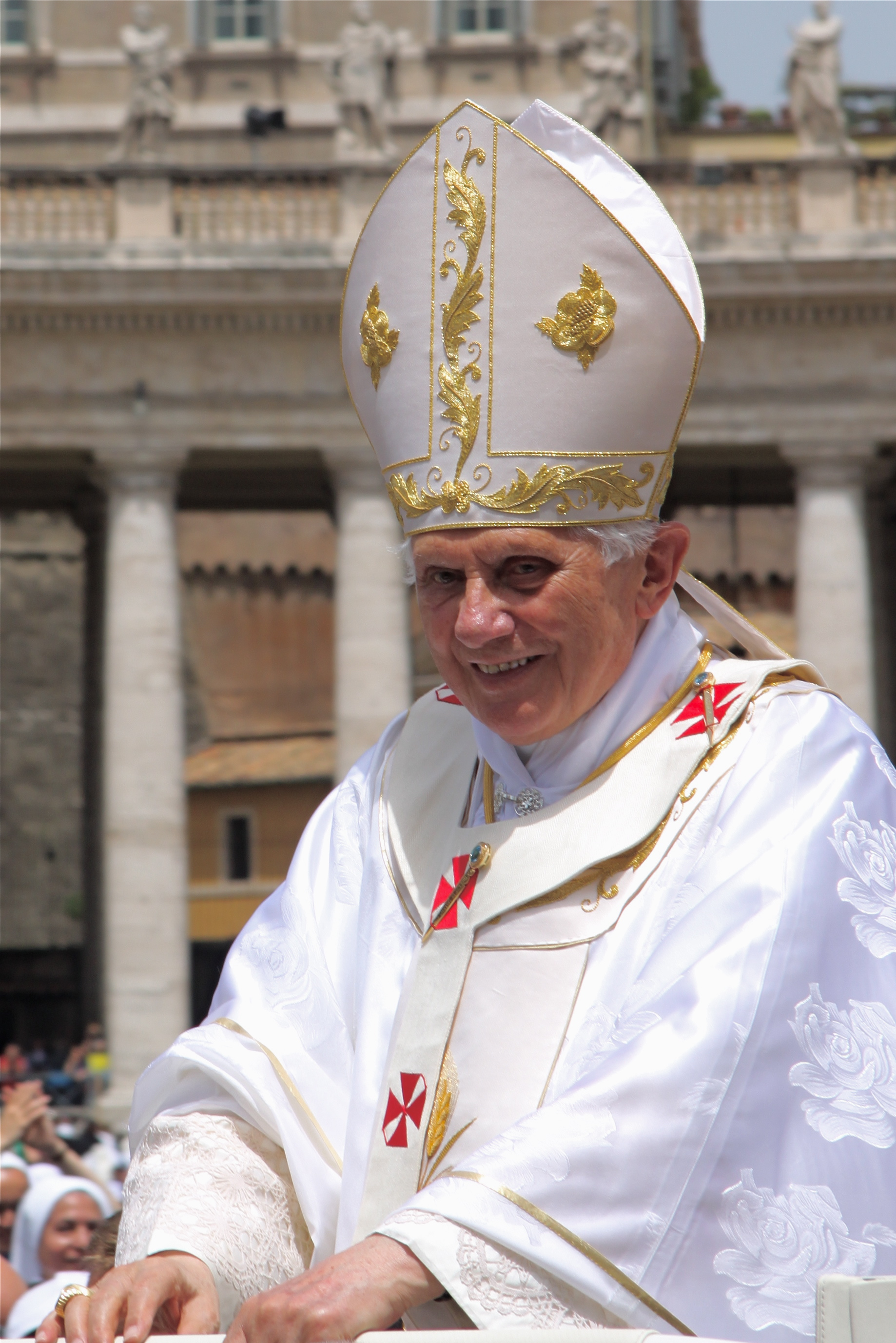 Benedictus XVI in 2010